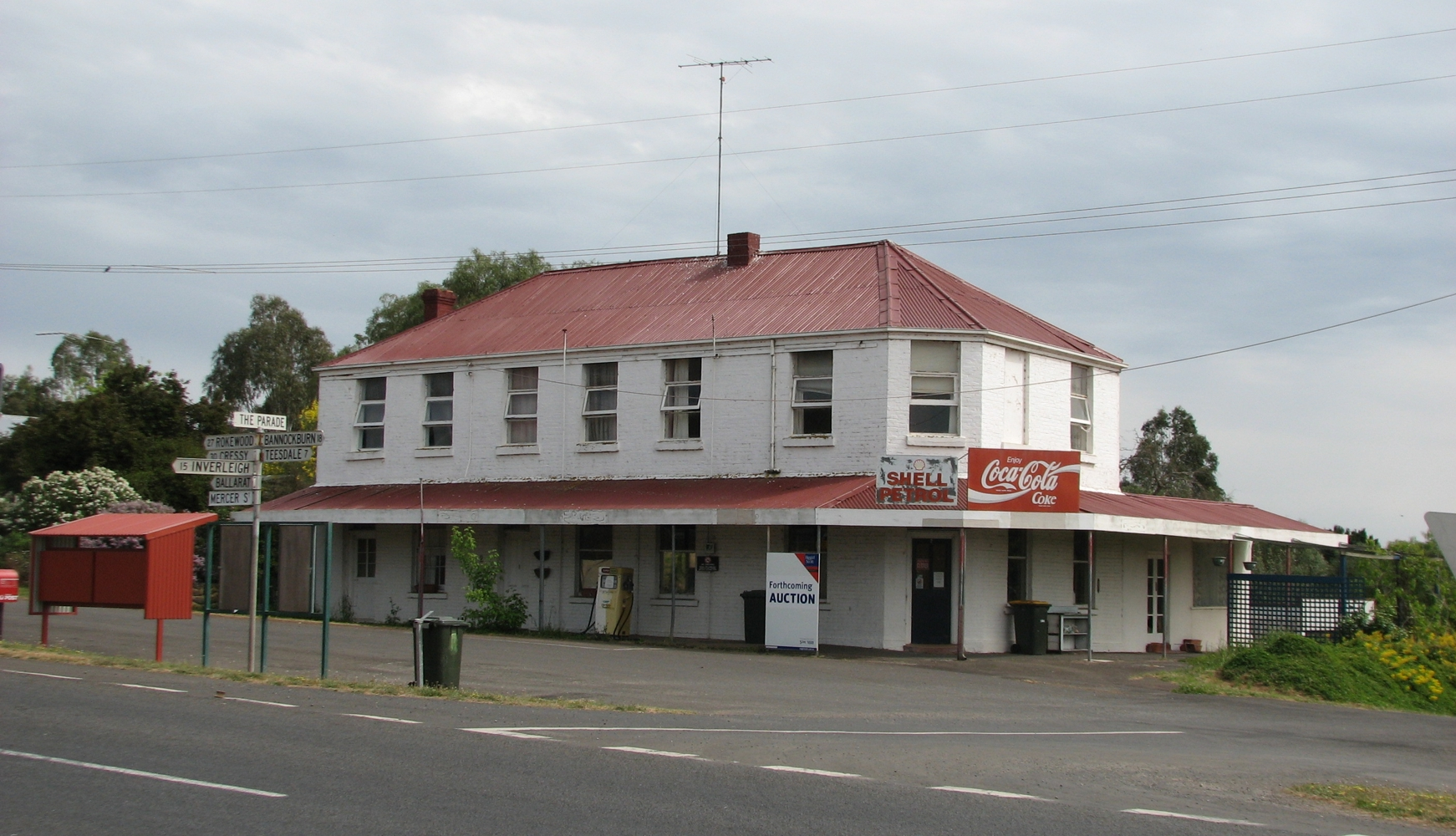 Former general store and petrol station, Shelford, Victoria, Australia